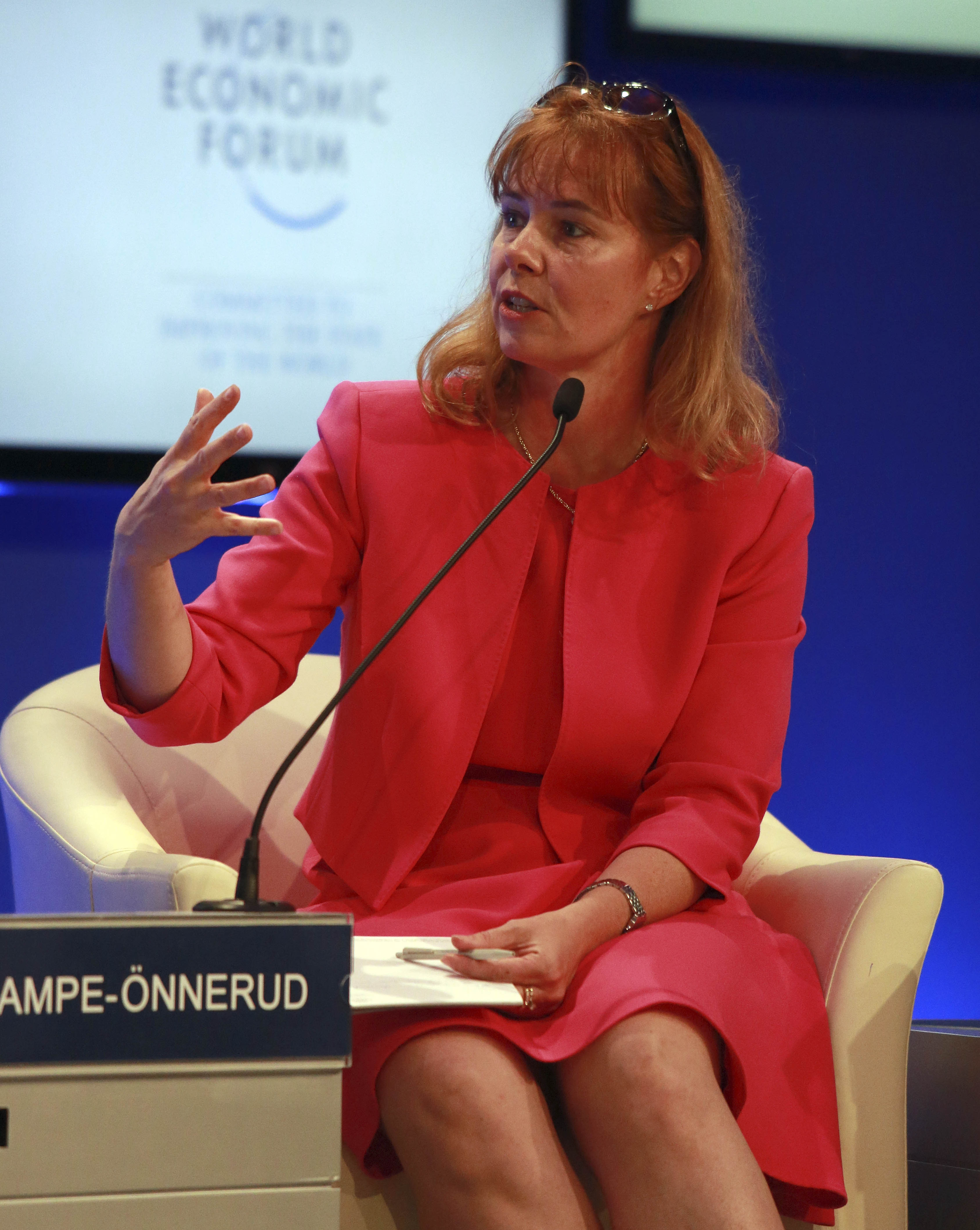 Christina Lampe-Önnerud, Founder and International Chairman, Boston-Power, USA; Technology Pioneer at the Annual Meeting of the New Champions in Tianjin, China 2012